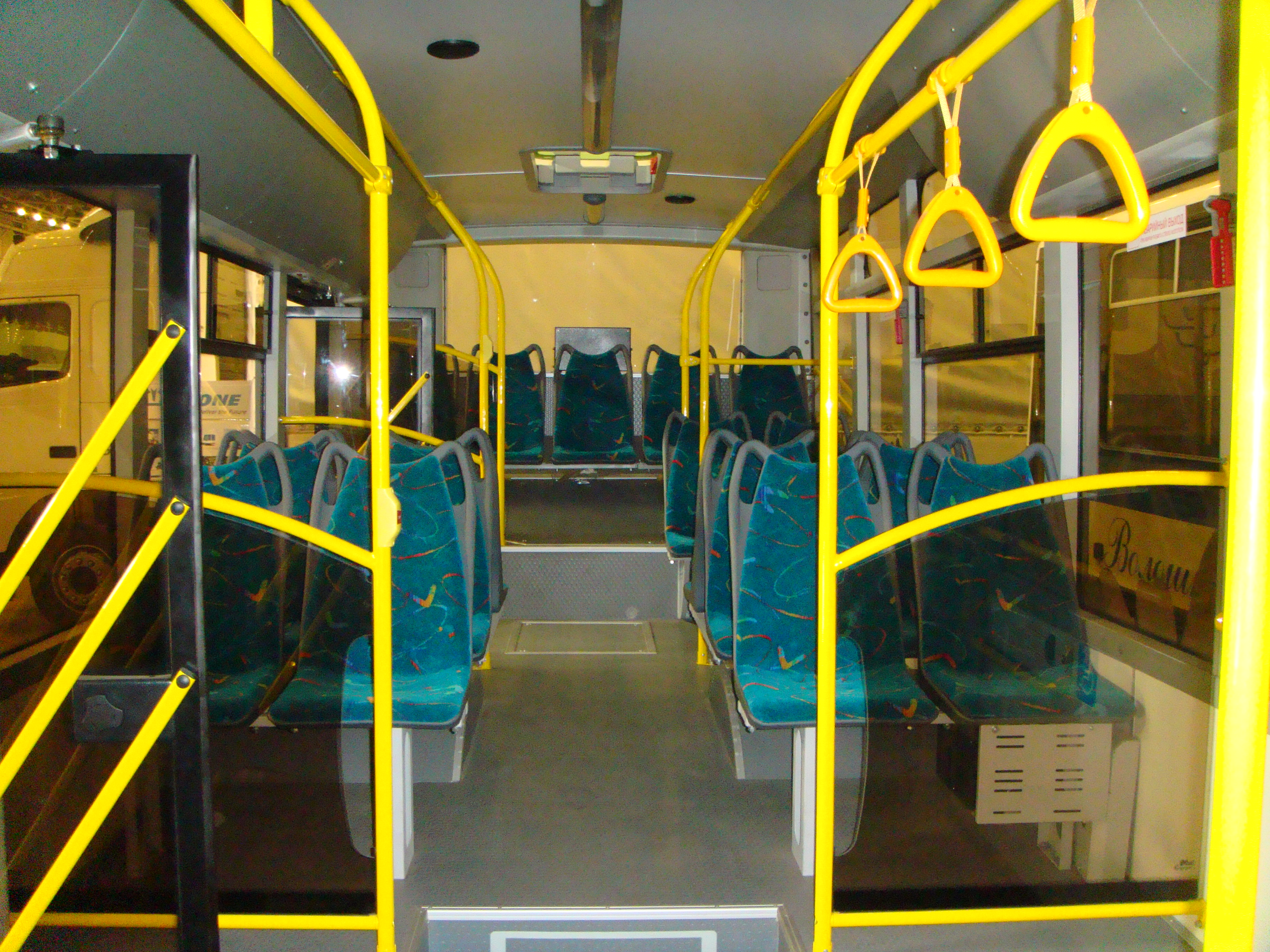 BAZ A11110 bus interior in Kiev, Ukraine. TIR 2010.